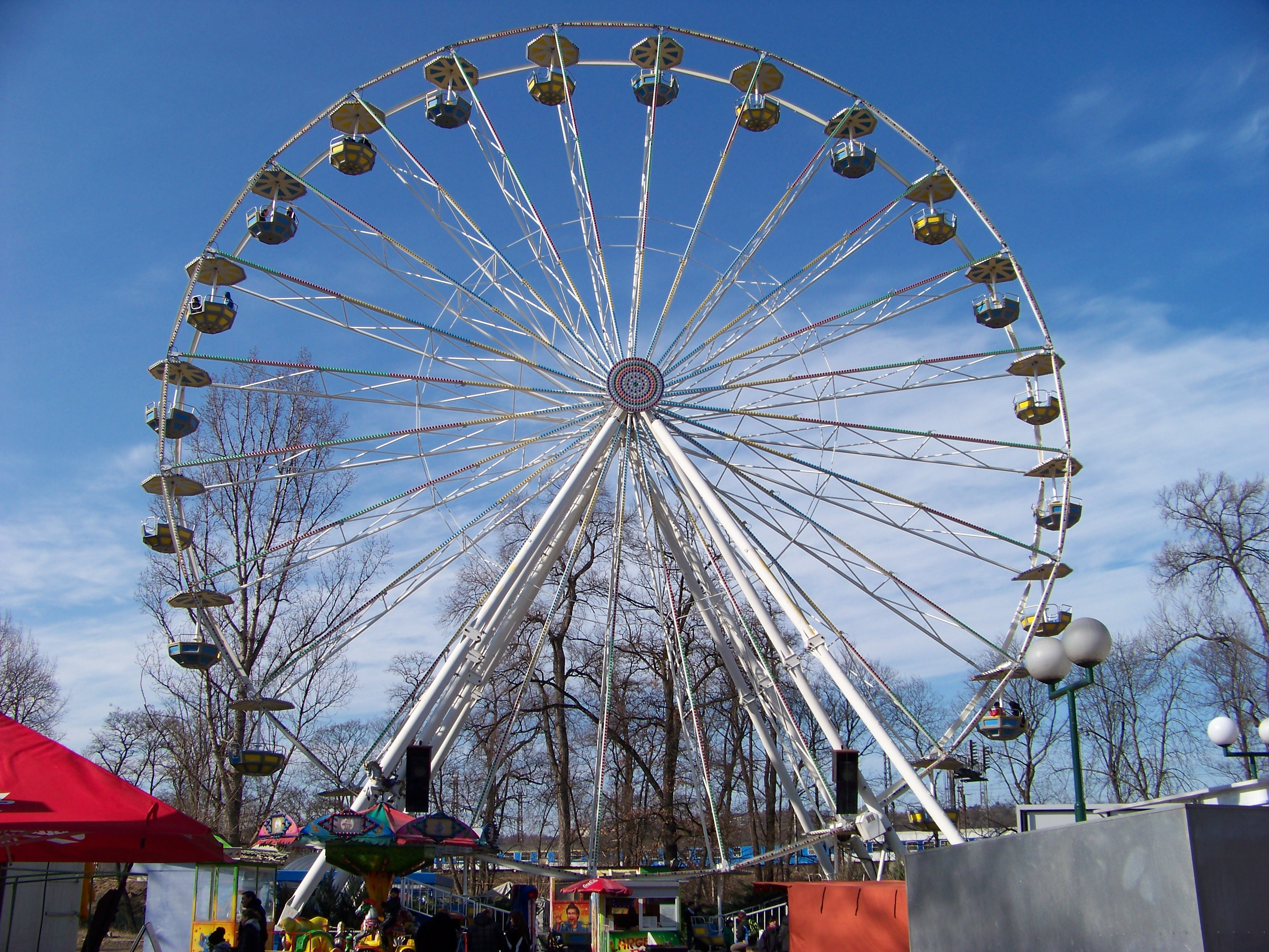 Prague-Bubeneč, the Czech Republic. Saint Matthias Funfair. Big Wheel. - OpenStreetMap(Info)